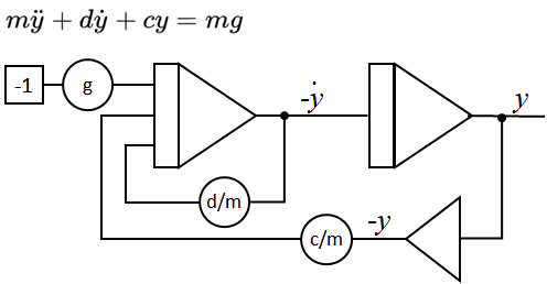 The analog circuit models a string pendulum with mass = m, damping coefficient = d, string coefficient c, and gravitational force = g. It includes two integrators, each of them inverting the polarity of the input, and three potentiometers for the coefficients. For proper functioning all coefficients need to be scaled to unity.